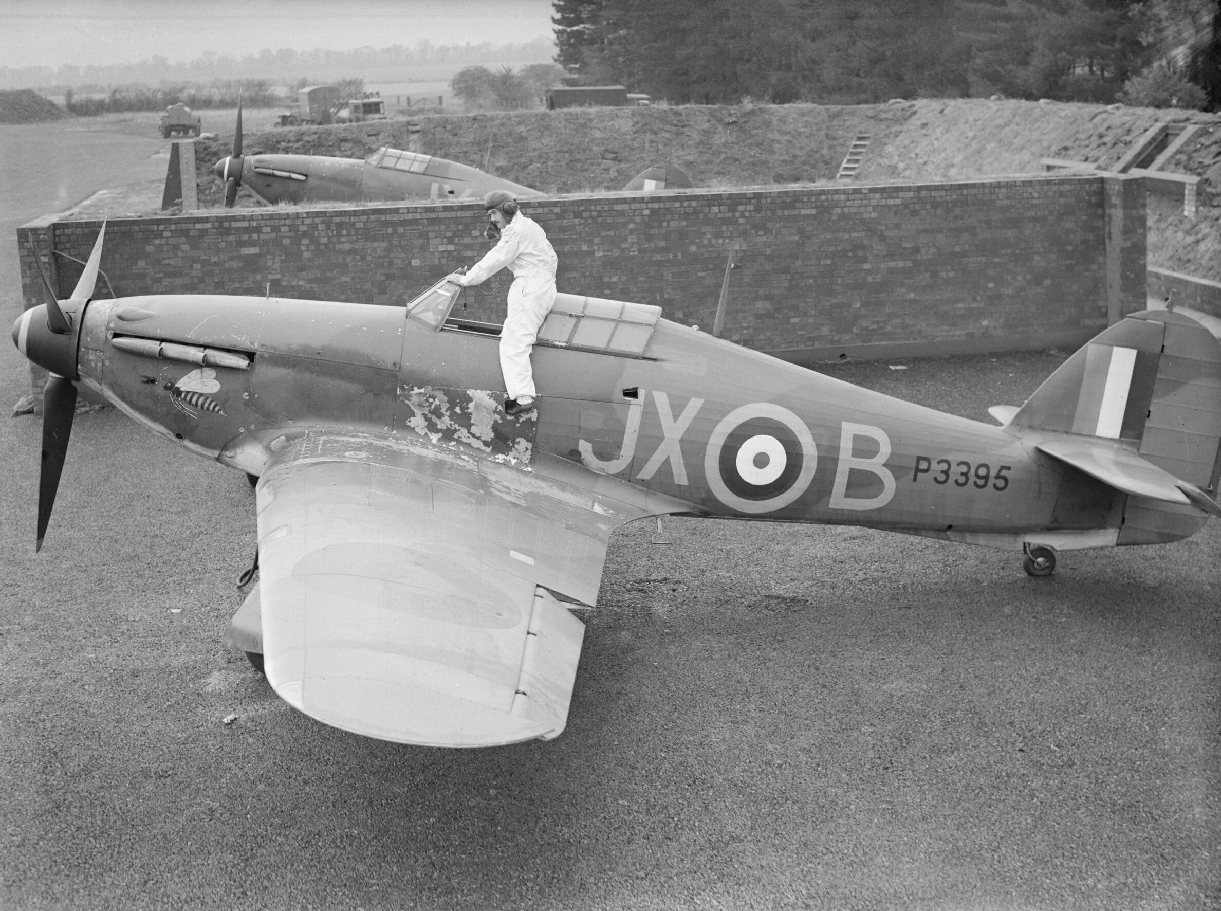 Pilot Officer A.V. "Taffy" Clowes of No. 1 Squadron RAF, climbing into his Hawker Hurricane Mark I (P3395 "JX-B"), in a revetment at RAF Wittering, Huntingdonshire (UK). Note Clowes' personal 'wasp ' emblem under the engine exhausts, in October 1940. P3395 was passed on to No. 55 Operational Training Unit on 8 November 1940. Transferred to No. 5 Flying Training School, it was written off after a wheels-up landing at Ternhill on 24 March 1942.